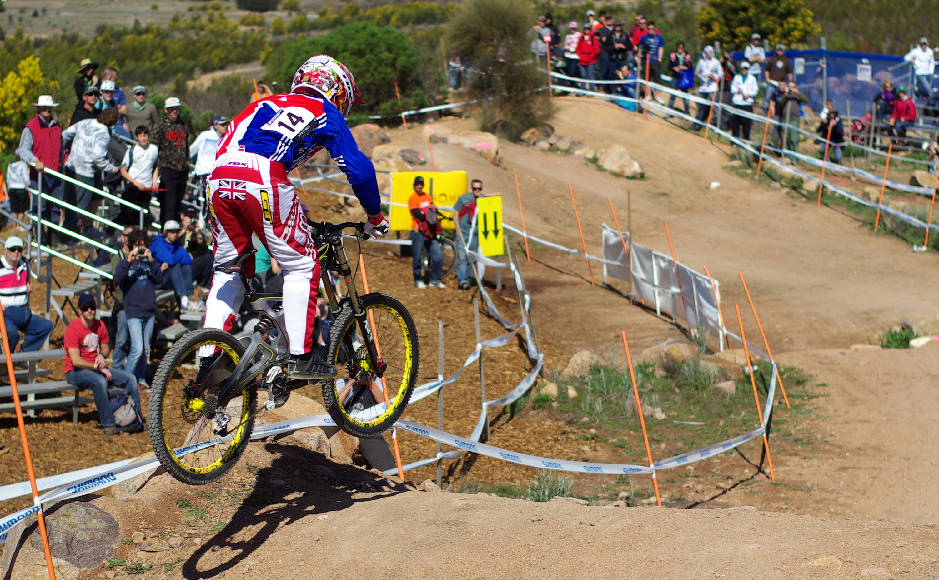 Cross-country mountain biking: Competitors in downhill events at the 2009 UCI Mountain Bike and Trials World Championships held at Mount Stromlo, near Canberra, Australia. Marc Beaumont, GBR. (Men's elite)